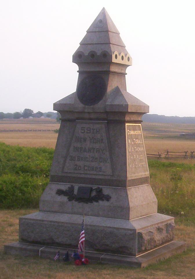 59th New York monument on Cemetery Ridge at Gettysburg.